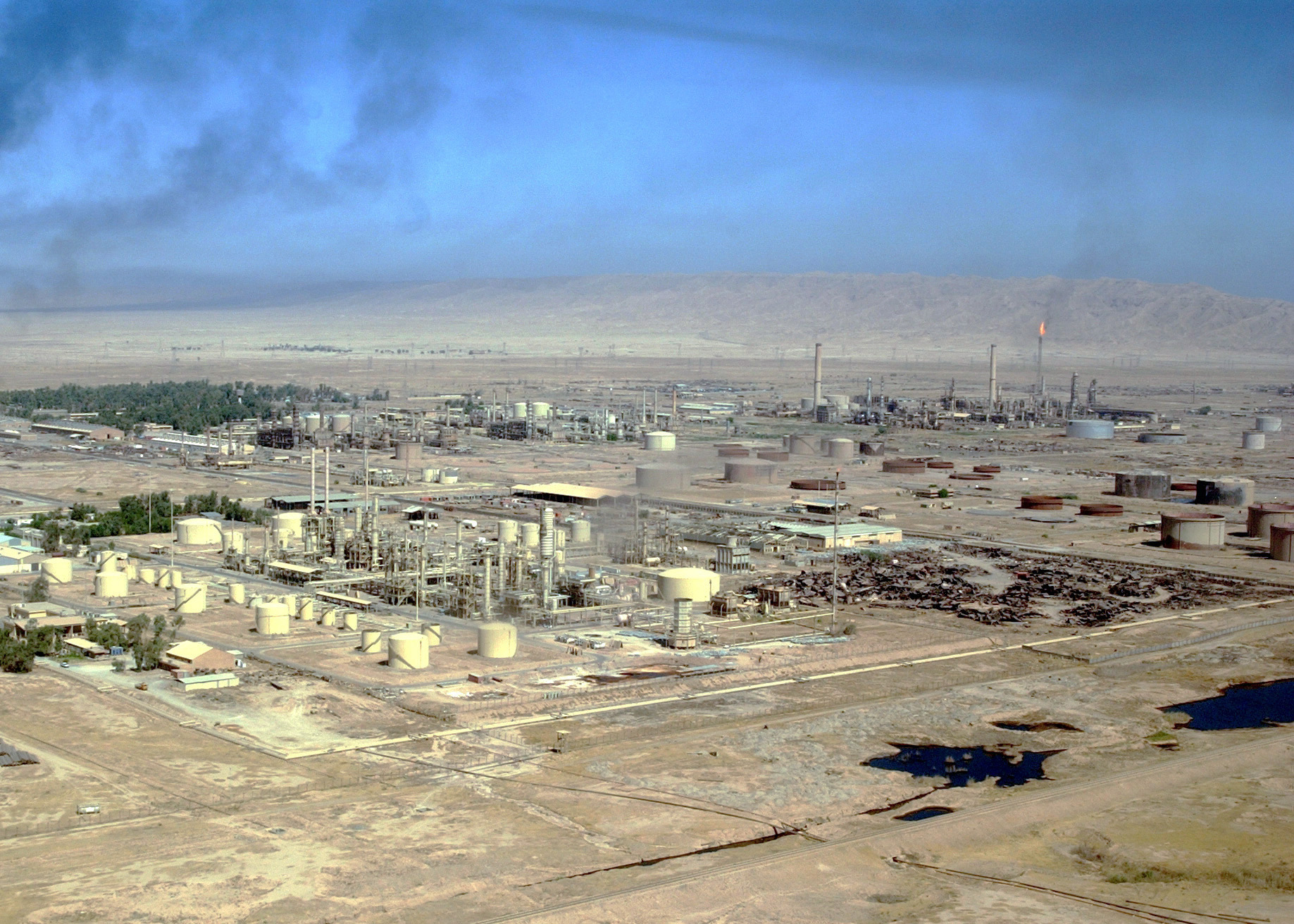 This is an aerial view of the Electrical Power Generation Plant, located in Bayji, Salah Ad Din Province, Iraq (IRQ).